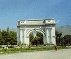 The de Triomphe style arch is located in Paghman Gardens. It was built by King Amanullah in commemoration of the War of Independence in 1919.